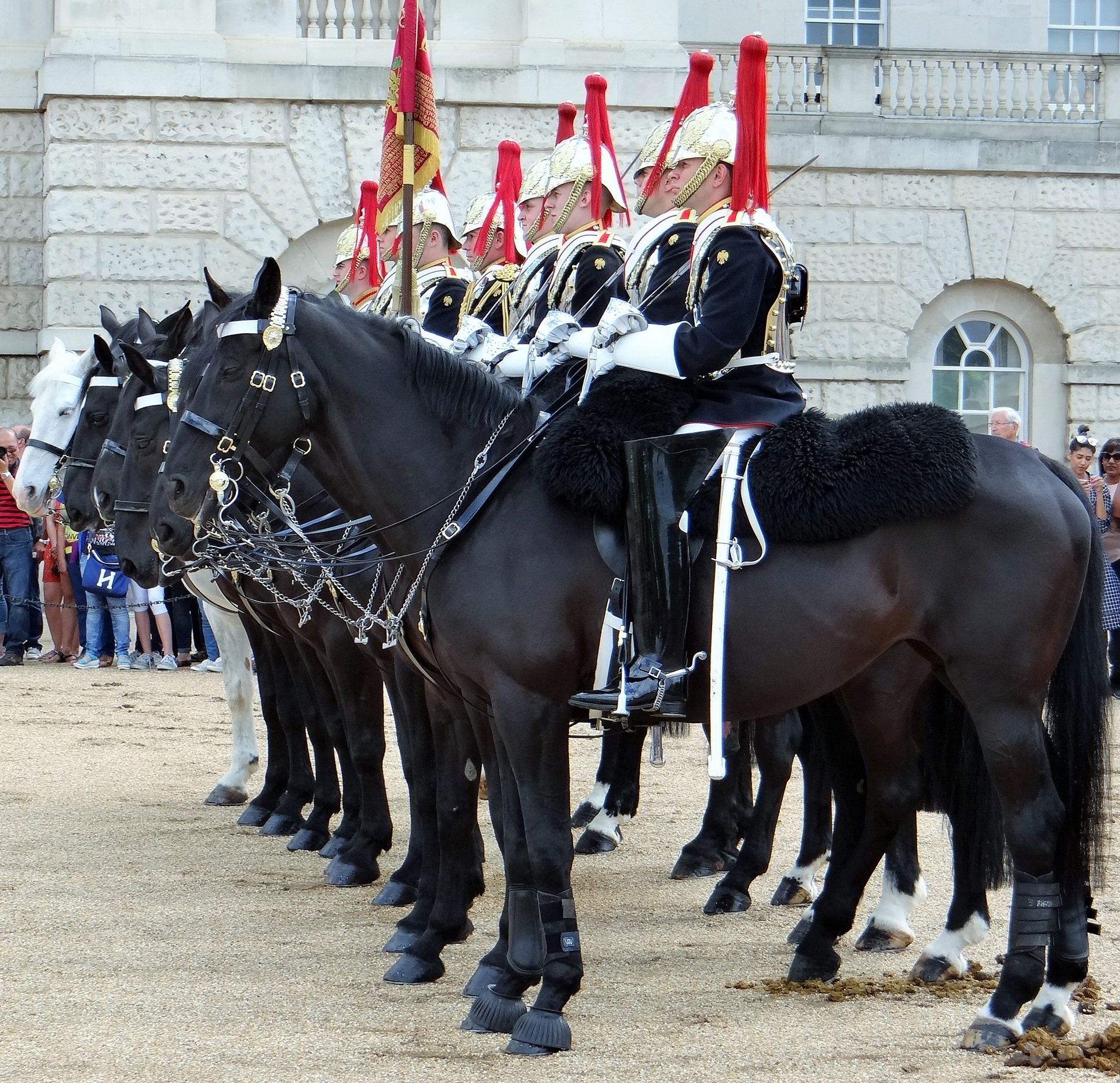 Changing of the Horse Guards, London